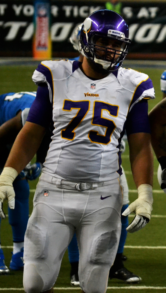 Minnesota Vikings offensive tackle Matt Kalil while a break during 2012 Minnesota Vikings at Detroit Lions